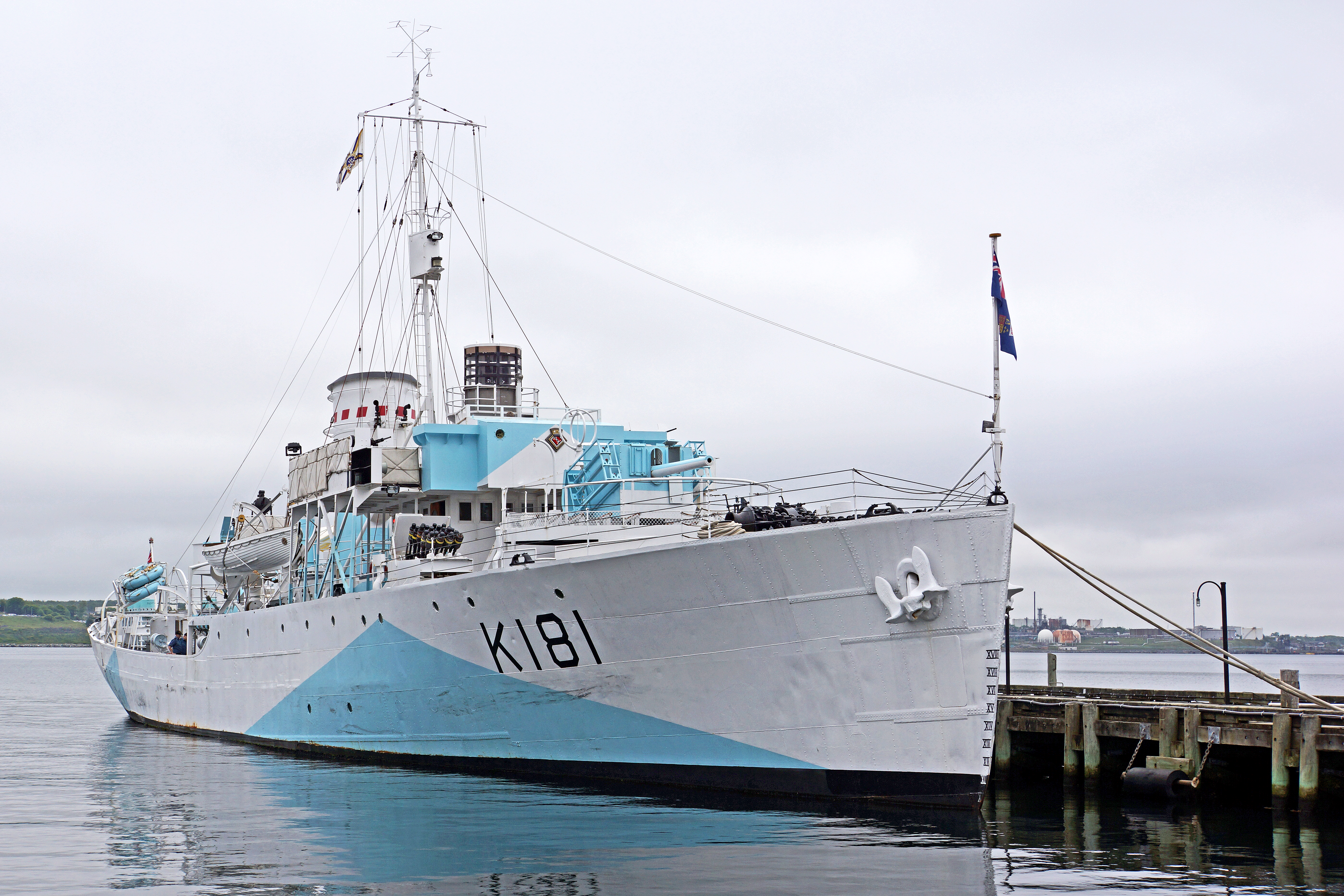 PLEASE, no multi invitations, glitters or self promotion in your comments, THEY WILL BE DELETED. My photos are FREE for anyone to use, just give me credit and it would be nice if you let me know, thanks - NONE OF MY PICTURES ARE HDR. Another shot from my new camera before we continue to the next site on the tour, Plovdiv, Bugaria. The HMCS Sackville is a flower class corvette from WW II. It is berthed in Halifax as a museum, it is the last serving flower class corvette. She was launched on 15 May 1941, it then went on to due convoy duties escorting ships across the Atlantic. After the war she was placed in reserve until she was reactivated in 1952 and converted to a research vessel for the Department of Marine and Fisheries. She currently serves the summer months beside the Maritime Museum of the Atlantic in Halifax, Nova Scotia, while spending her winters securely in the naval dockyard at CFB Halifax under the care of Maritime Forces Atlantic, the Atlantic fleet of Royal Canadian Navy. Sackville's presence in Halifax is considered appropriate, as the port was an important North American convoy assembly port during the war.